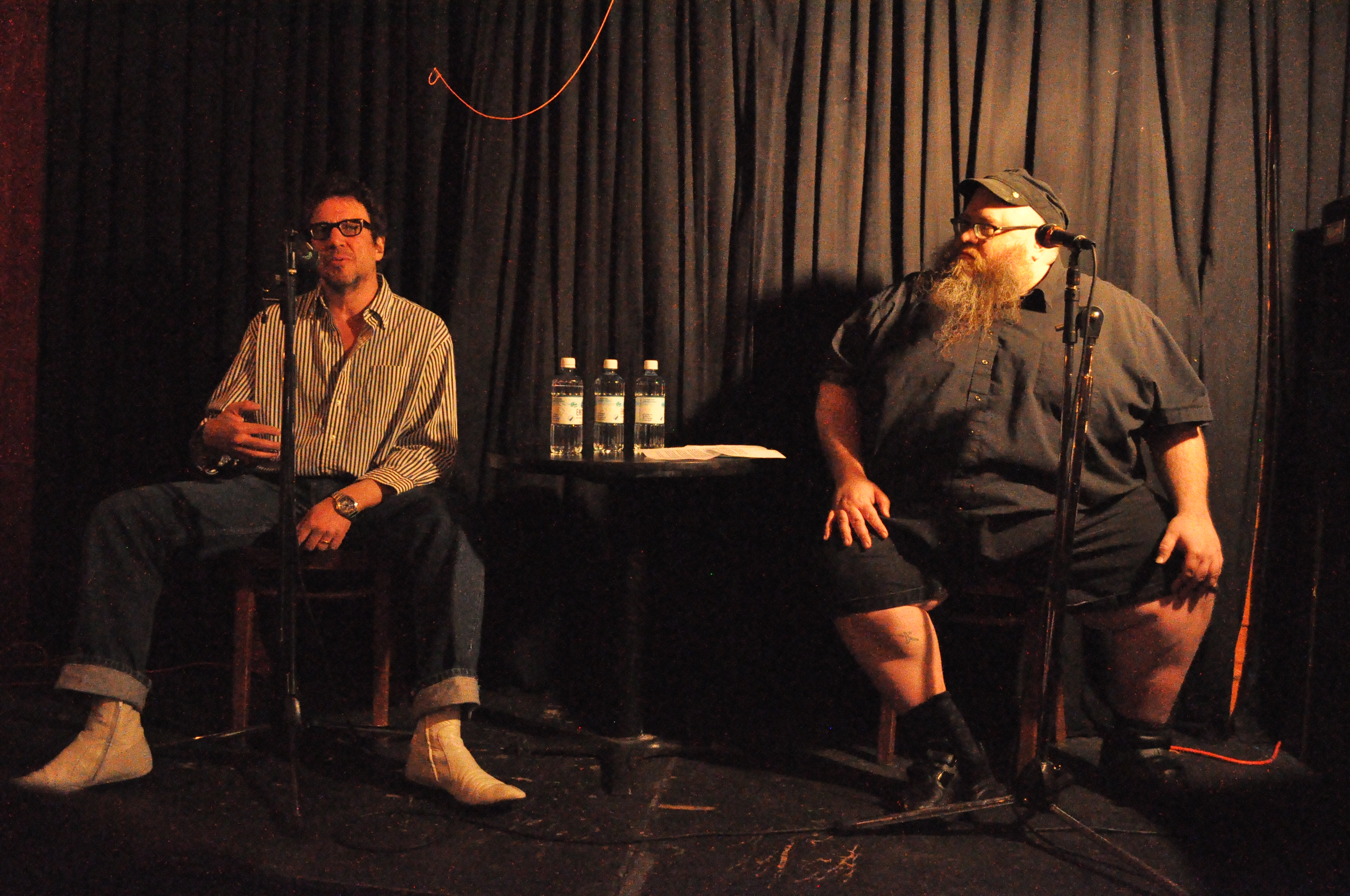 Richard Hell and writer/promoter Chris Estey in an interview in the Grotto of the longstanding bar the Rendezvous, 2322 2nd Avenue, Belltown, Seattle, Washington.